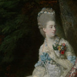 Sophia Baddeley, Robert Baddeley, Thomas King by Johan Zoffany from a Royal command performance of the Clandestine Marriage in 1769.12 October